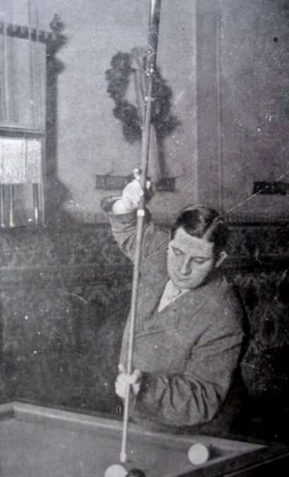 German billiard player Hugo Kerkau about to shoot a massè shot, on an undersized carom billiards table, ca. 1920